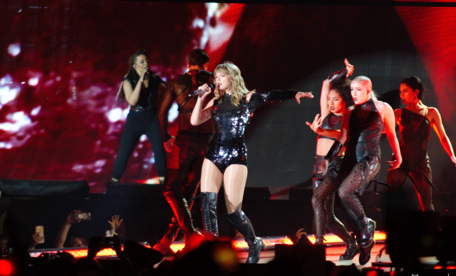 Taylor Swift ::: Sports Authority Field ::: 05.25.18